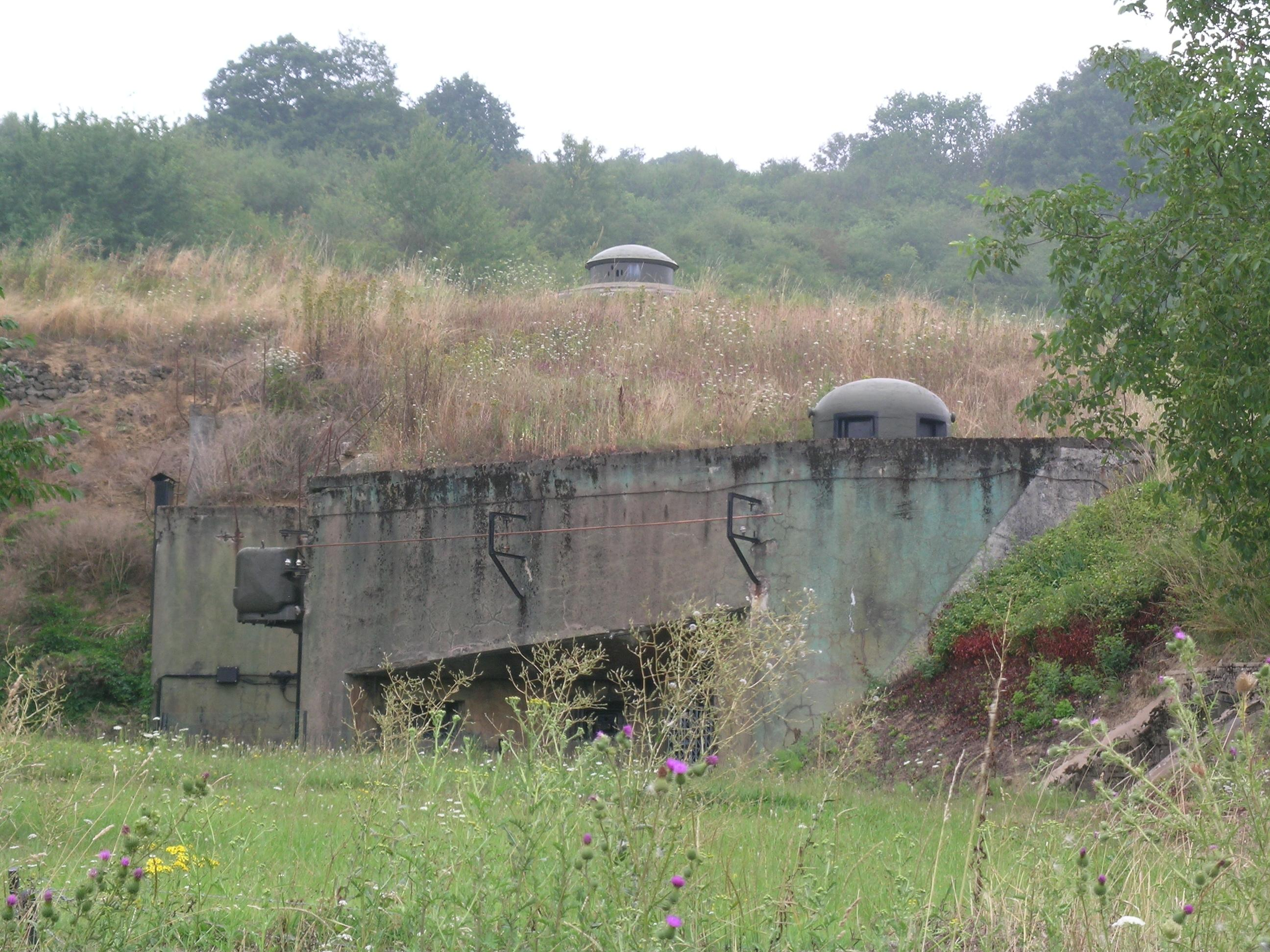 Ouvrage Sentzich, Maginot Line, France.